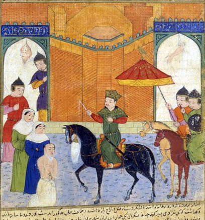 Ghazan. Occupation of Nishapur (1294). Jami' al-tawarikh, Rashid al-Din.